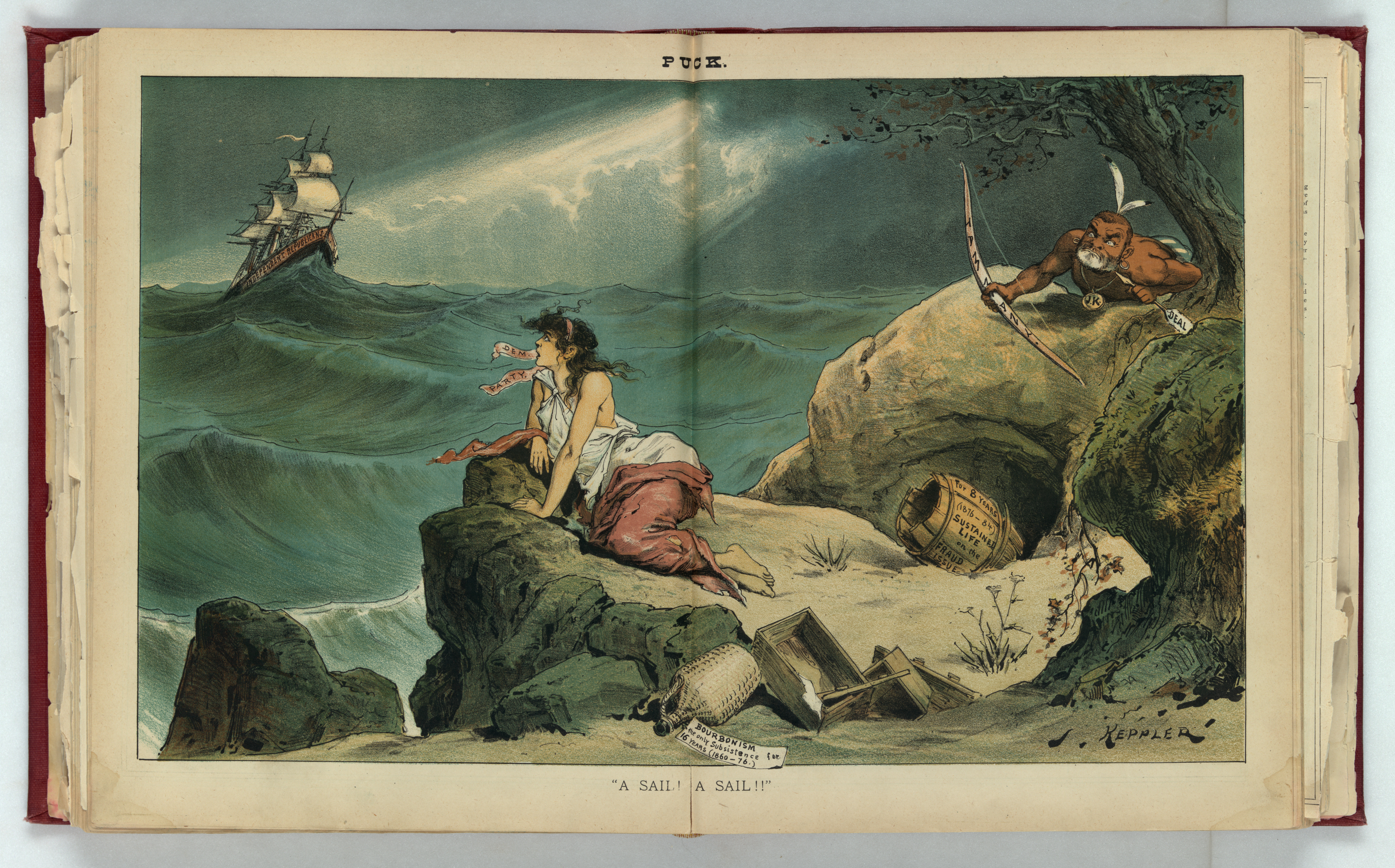 Title: "A sail! A sail!!" Abstract: Illustration shows a woman labeled "Dem. Party" on the rocky coast of a deserted island, nearby is an empty jug labeled "Bourbonism the Only Subsistence for 16 Years (1860-76)" and a broken cask labeled "For 8 Years (1876-84) Sustained Life on the Fraud Issue"; she has sighted a ship labeled "Independent Republicans" head her way. John Kelly, dressed like an Indian, is creeping over rocks on the right, he holds a bow labeled "Tammany" in one hand and an arrow labeled "Deal" in the other; he wears a medallion around his neck labeled "J.K." Physical description: 1 print : chromolithograph. Notes: J. Keppler.; Copyright 1884 by Keppler & Schwarzmann.; Illus. from Puck, v. 15, no. 382, (1884 July 2), centerfold.; Title from item.